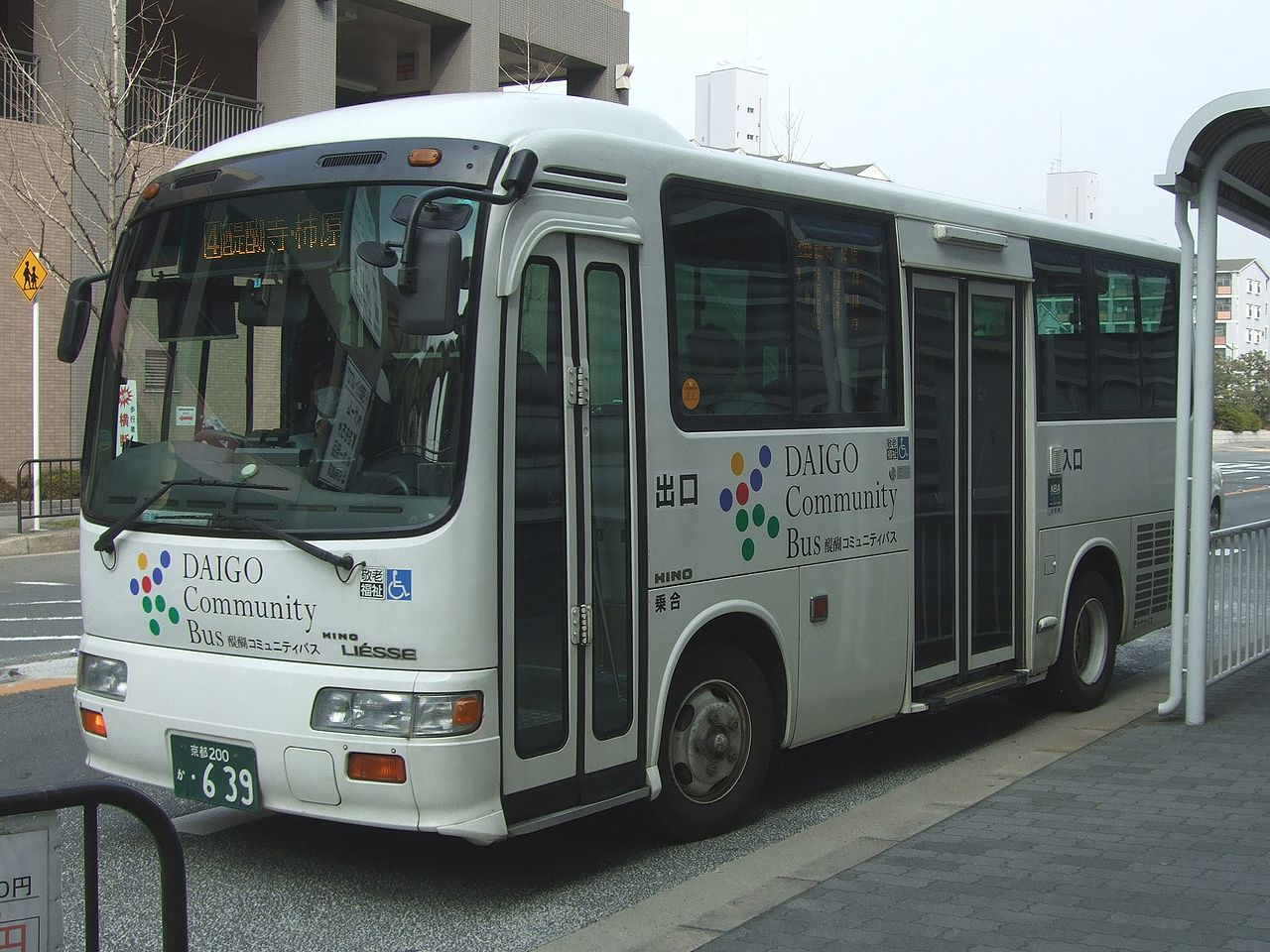 Daigo Community Bus, Fushimi Ward, Kyoto City, Kyoto, Japan. 醍醐コミュニティバス